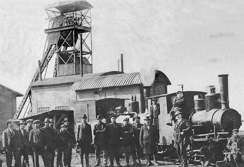 The headframe of Wiejski shaft, coal mine Karol in Orzegów, Poland.